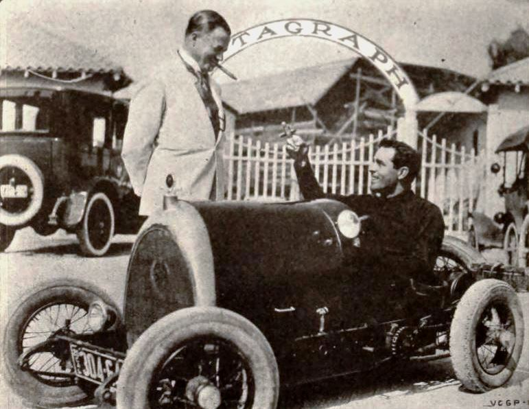 Vitagraph president Albert E. Smith and actor Antonio Moreno, on page 52 of the October 16, 1920 Exhibitors Herald.